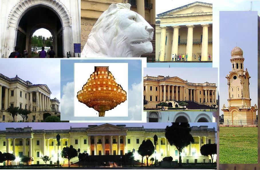 Photos from Hazarduari.